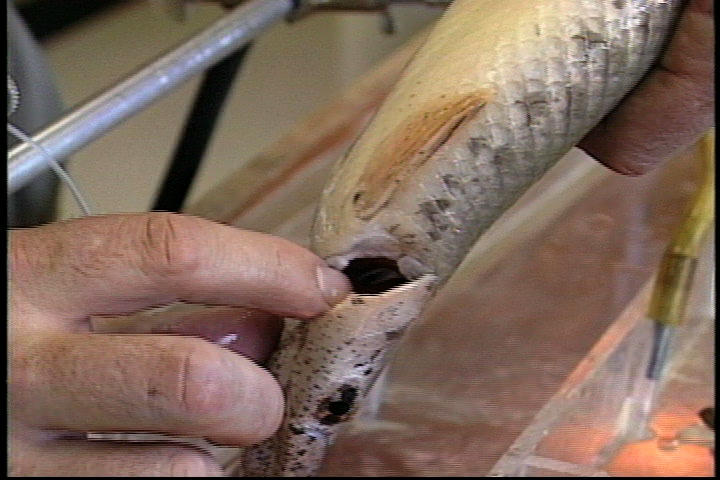 Gill of a gar